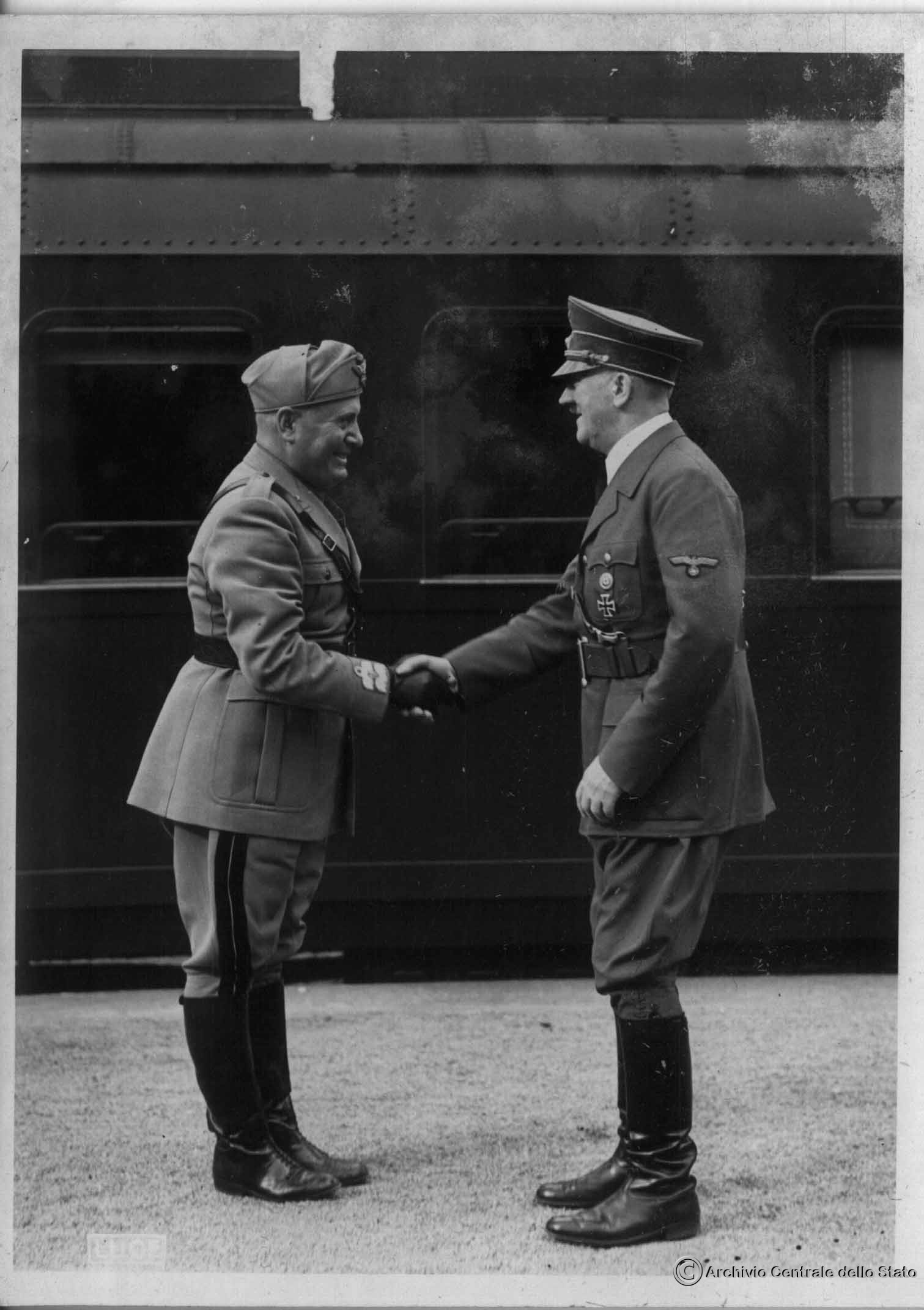 Meeting of Benito Mussolini and Adolf Hitler at the station at the German headquarters in August 1941